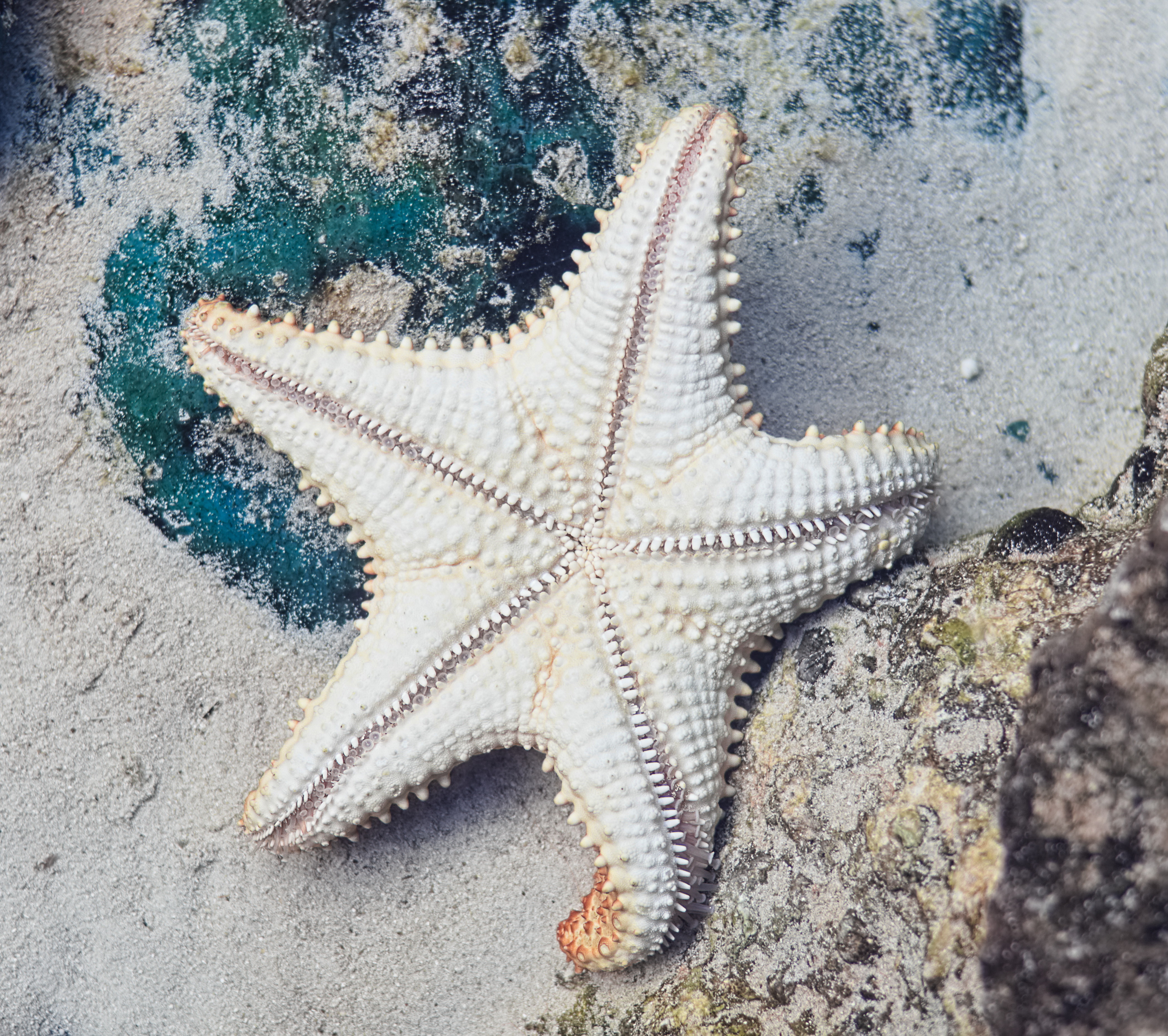 Bottom side of a red cushion seastar (Oreaster reticulatus), Acuarium Cancun, Mexico